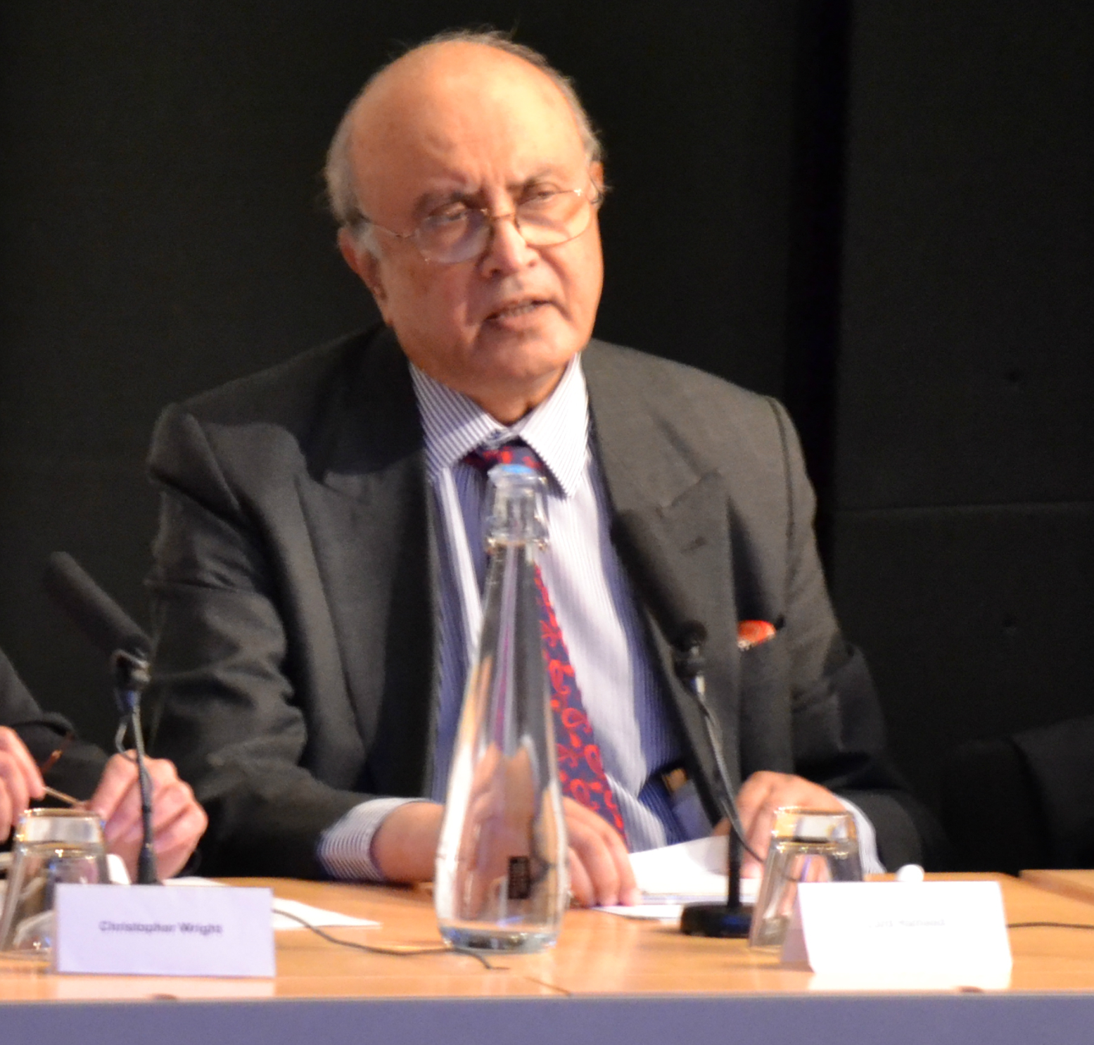 Khalid Hameed, Baron Hameed, Chairman of Alpha Hospital Group, and Chairman and Chief Executive Officer of the London International Hospital